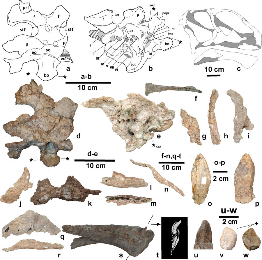 The skull material (UMNH.VP.26004) of Mierasaurus bobyoungi gen. nov, sp. nov.: (a) braincase (DBGI 173) in dorsal view; (b) braincase (DBGI 173) in left ventrolateral view; (c) reconstruction of the skull of Mierasaurus. Shaded bones were either not preserved or yielded no information if they were; (e) braincase (DBGI 173) in left lateral view; (f) nasal (DBGI 85 A) in dorsal view; (g) anterior fragment (muzzle) of the right premaxilla (DBGI 107 D) in left lateral view; (h) right lacrimal (DBGI 160) in left lateral view; (i) right quadrate (DBGI 54) in right lateral view; (j) right jugal (DBGI 78B) in right lateral view; (k) fragment of right maxilla (DBGI 78) in left lateral view (l) fragment of the right maxilla (DBGI 95I) in left lateral view; (m) fragment of the right maxilla (DBGI 95I) in ventral view; (n) fragment of nasal and ascending process of the premaxilla (DBGI 107D) in right lateral view; (o) a premaxillary-maxillary tooth (DBGI 95) in lingual view; (p) a premaxillary-maxillary tooth (DBGI 95) in labial view; (q) right surangular (DBGI 71) in right lateral view; (r) left prearticular (DBGI 70) in lateral view; (s) left dentary (DBGI 60) in medial view; (t) CT image of the dentary in transverse cross-section showing two replacement teeth; (u) anterior dentary teeth (DBGI 60) in lingual view; (v) posterior tooth (DBGI 27) in labial view; (w) posterior tooth (DBGI 27) in lingual view. A plus sign (+) indicates a synapomorphy of Turiasauria: teeth with a heart-shaped outline. An asterisk (*) indicates autapomorhies of Mierasaurus bobyoungi gen. et sp. nov. For abbreviations see supplementary information. (a), (b) and (c) were drafted by R.R.T. (© Fundación Conjunto Paleontológico de Teruel-Dinópolis) in Adobe Illustrator CS5 (